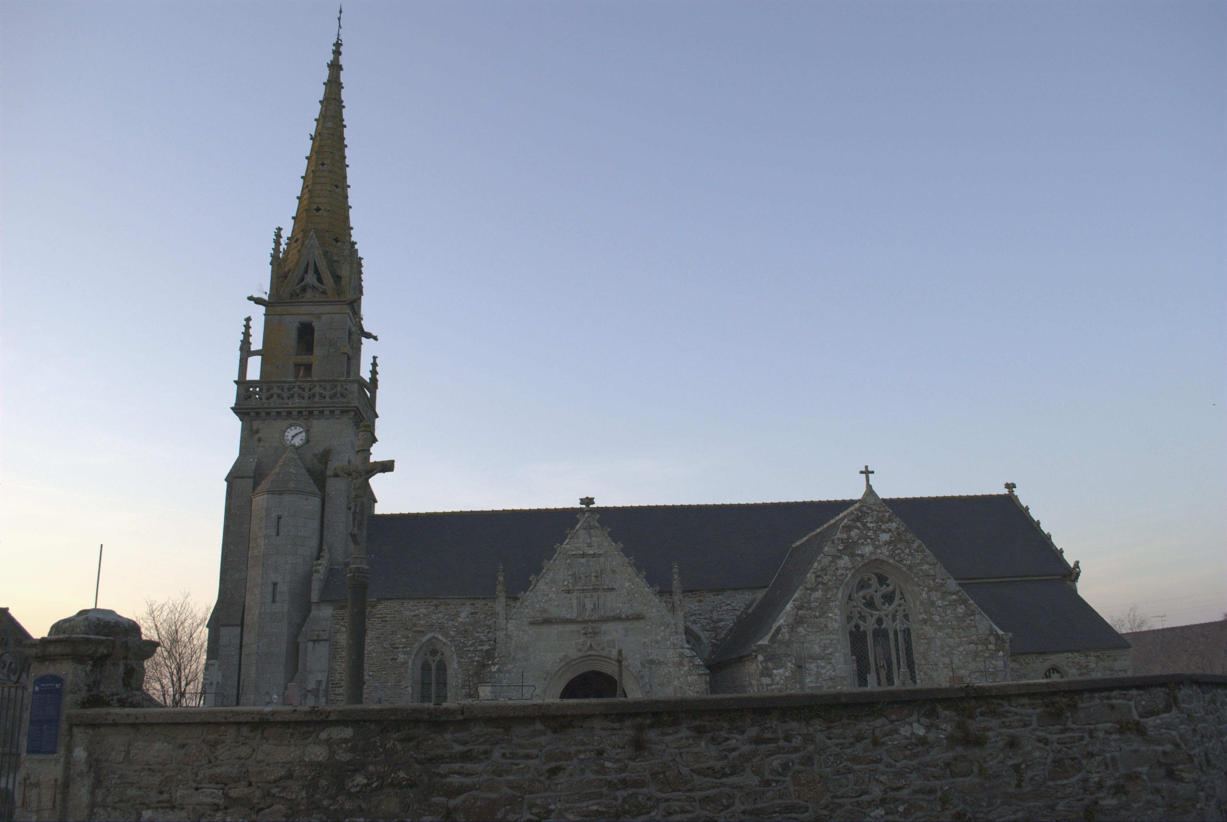 Church of Saint-Fiacre in the village of Saint-Fiacre(France).